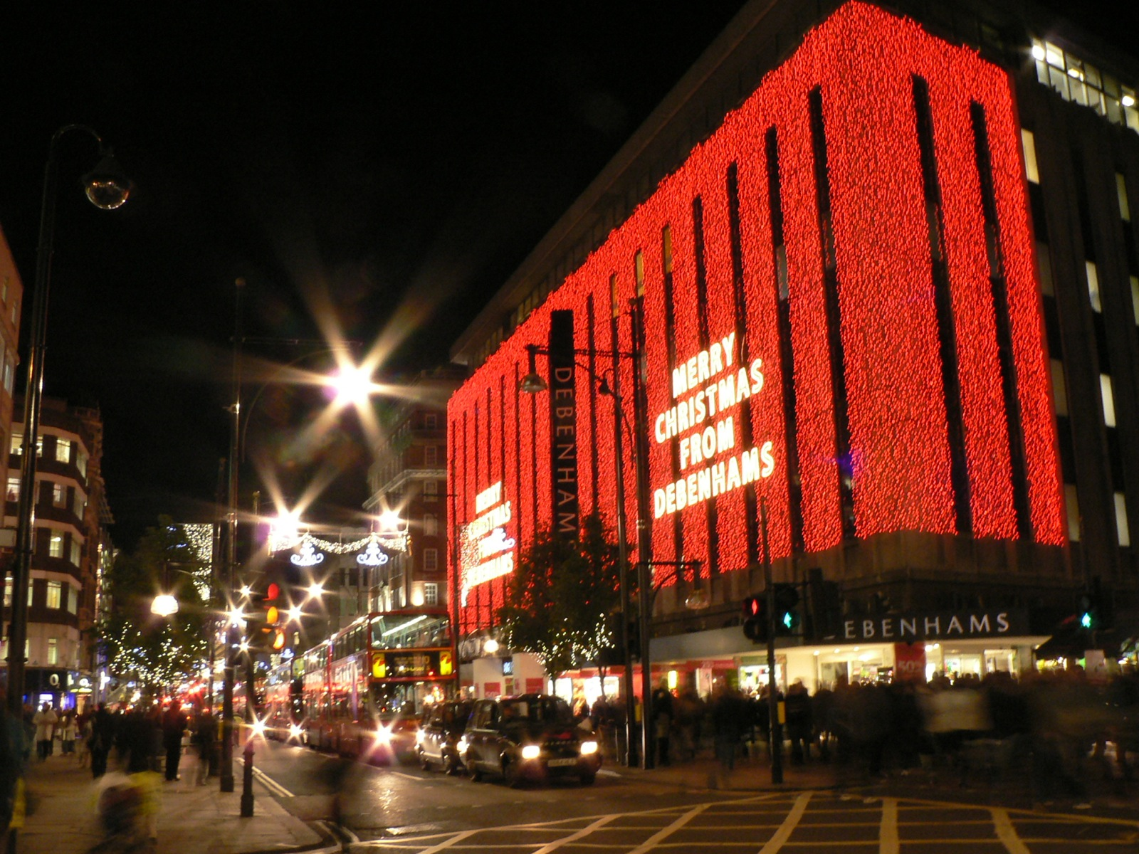 Christmas Light up at Debenhams, Oxford Street